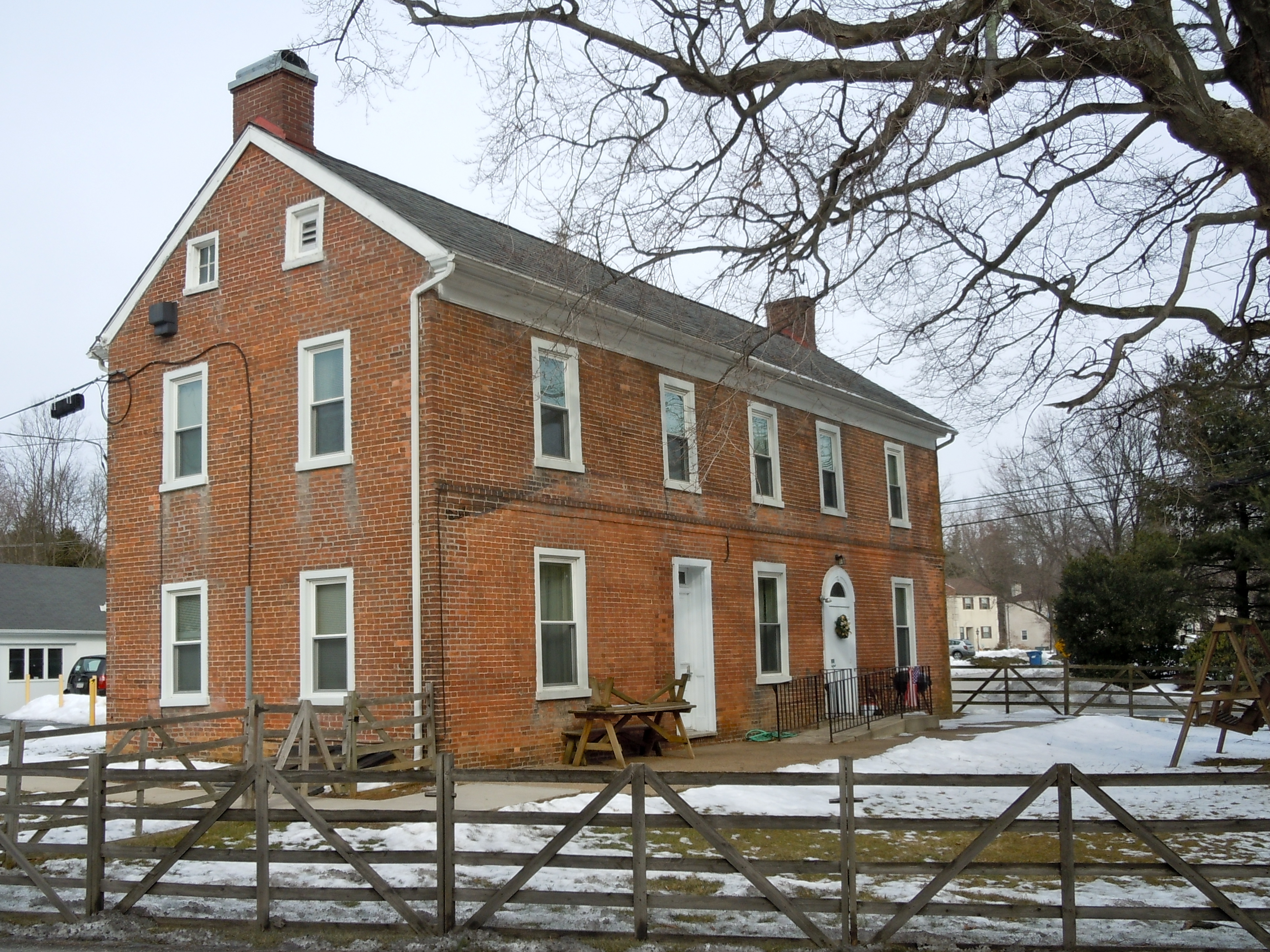 William Everhart House on the NRHP since August 2, 1984 , at South Ship and Boot Roads, in West Whiteland Township, Chester County, Pennsylvania. North of West Chester, PA. I believe this Everhart was a publisher associate of Lincoln's.